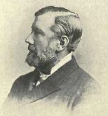 John Ross Robertson, a Canadian newspaper publisher, politician, and philanthropist from Toronto, Canada.